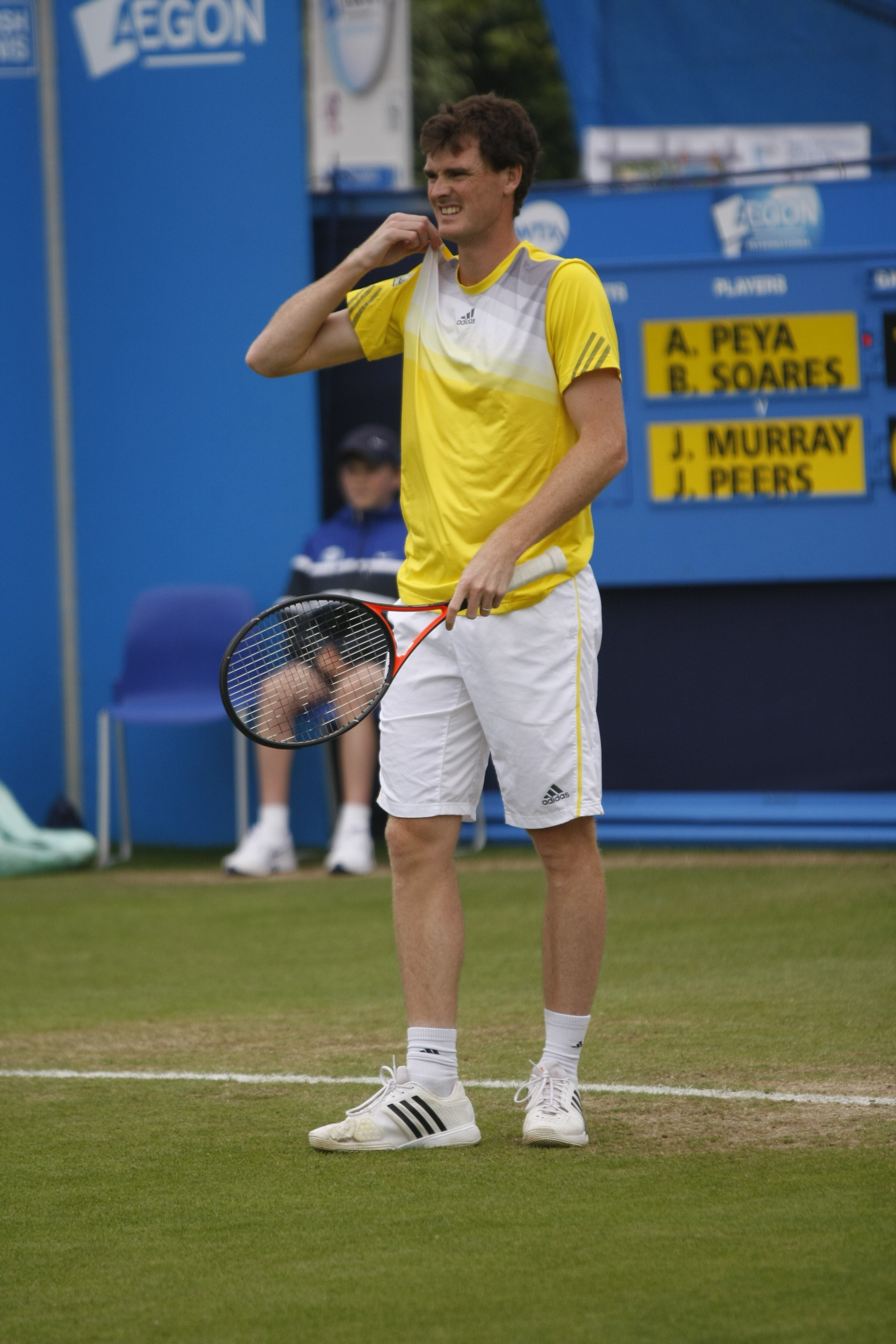 Aegon International Tennis, Eastbourne, June 2013